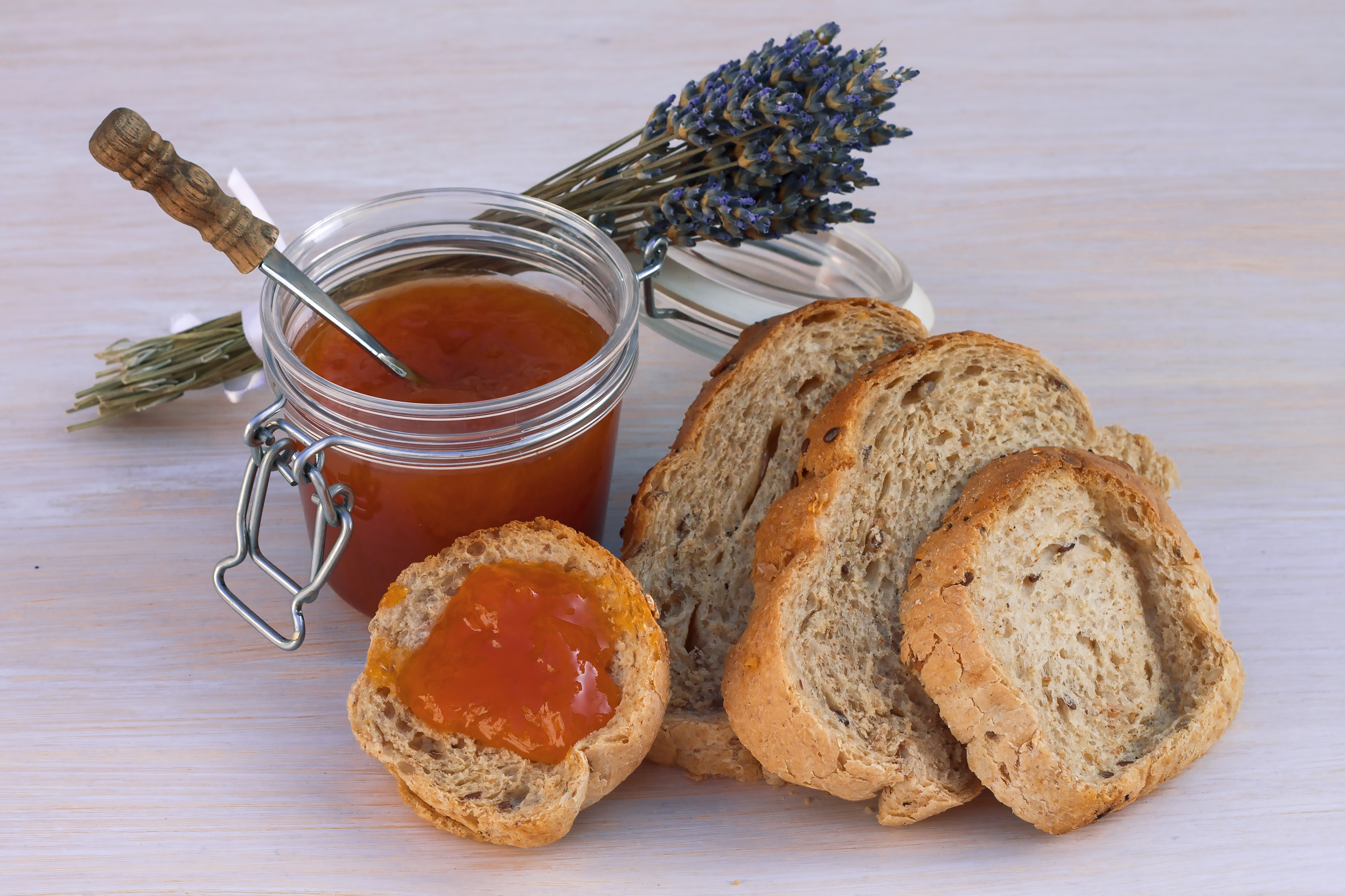 Apricot jam in a glass canning jar with slices of bread